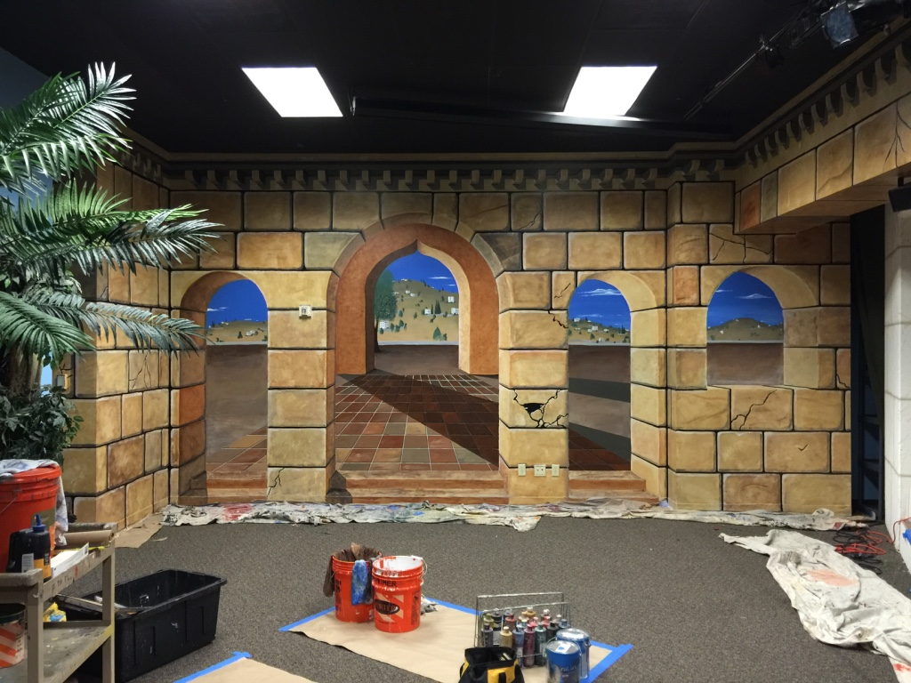 10' x 50' mural on drywall, painted with acrylic paint